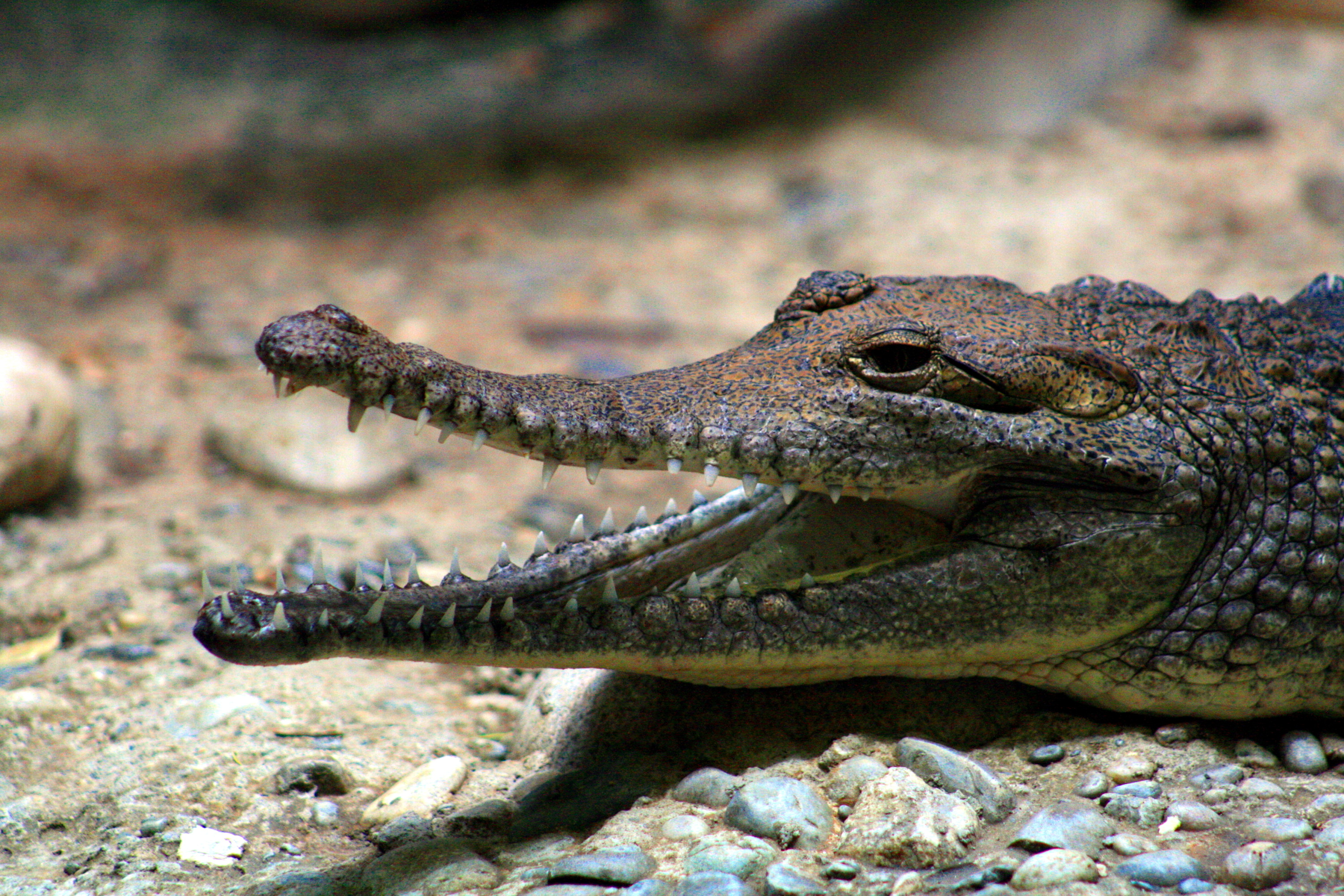 Australian freshwater crocodile (Crocodylus johnsoni)